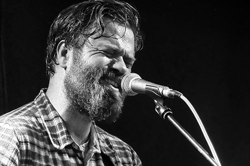 Mugison at venue Radar in Aarhus, Denmark (2015)